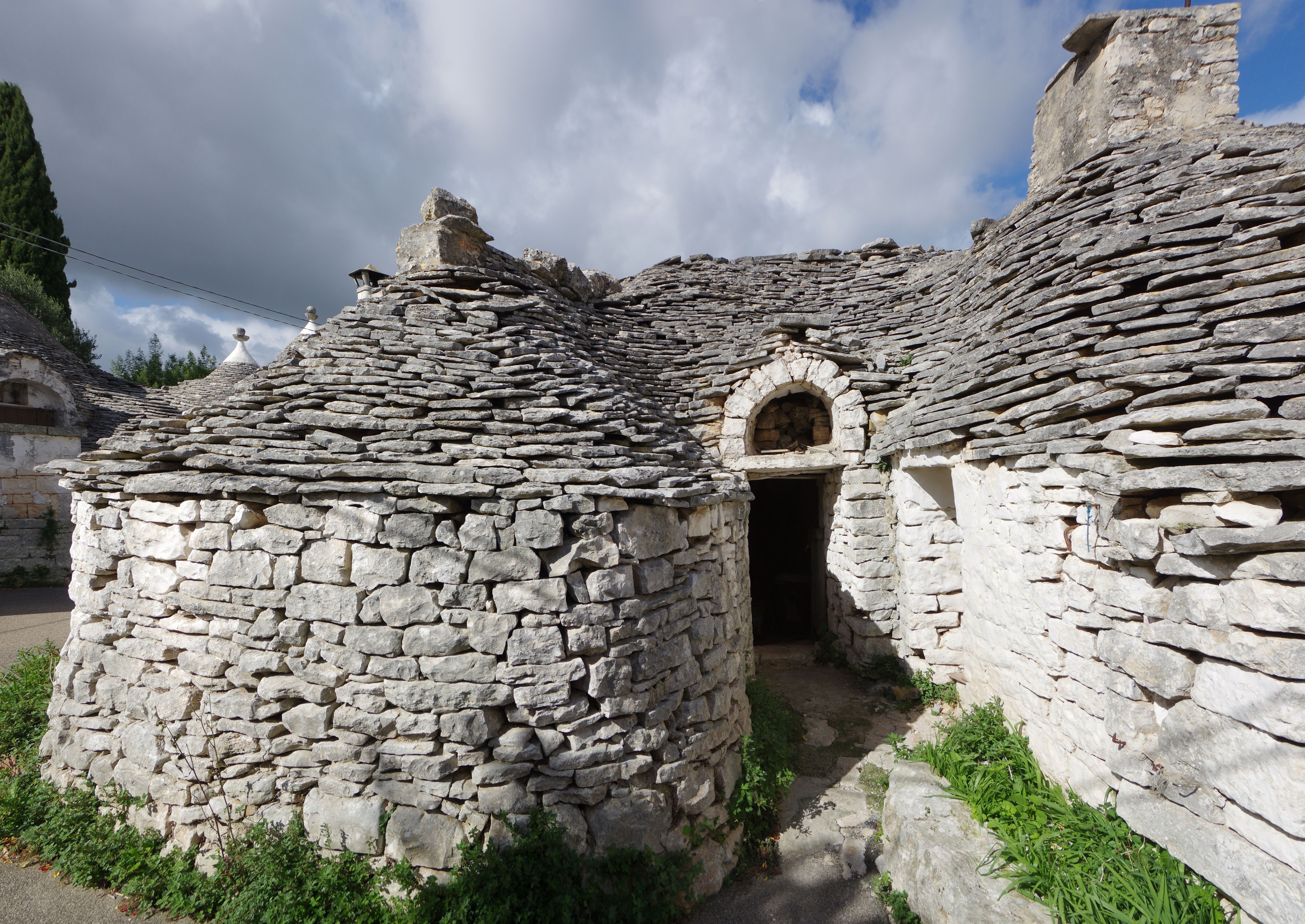 Italy, Alberobello, Trullo (Trulli)